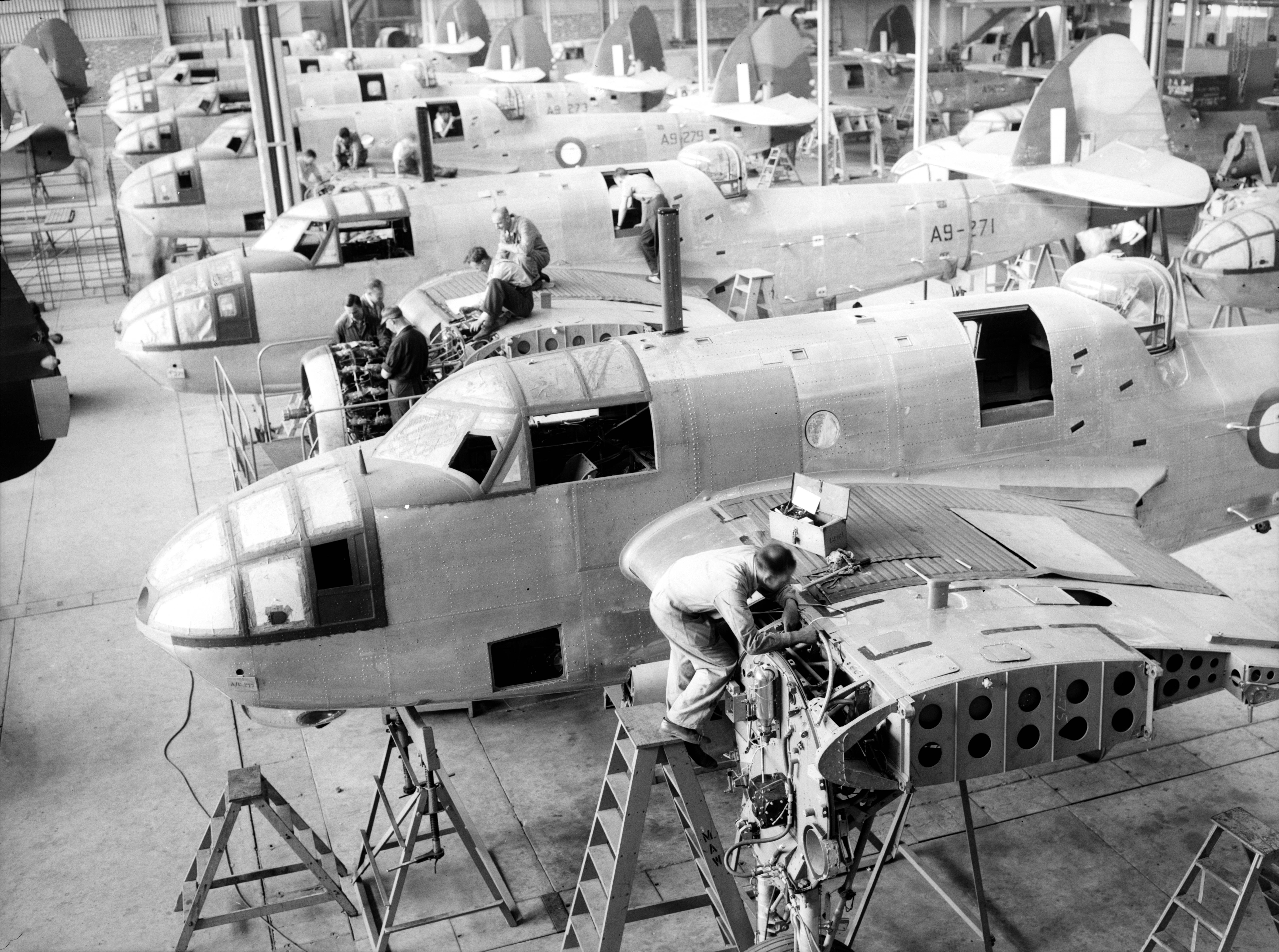 Production of RAAF Bristol Beaufort Mk.VIII torpedo bombers at the Department of Aircraft Production (DAP) plant in Fisherman's Bend, Melbourne (Australia), circa 1943. A9-271, second in row, later served with No. 6 Operational Training Unit RAAF,Central Flying School and No. 1 OTU. It was placed into storage on 25 November 1945 and struck off charge in August 1949.